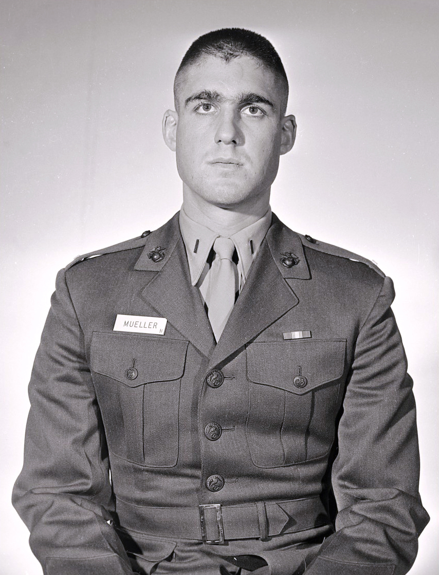 Lt Robert S. Mueller, USMC